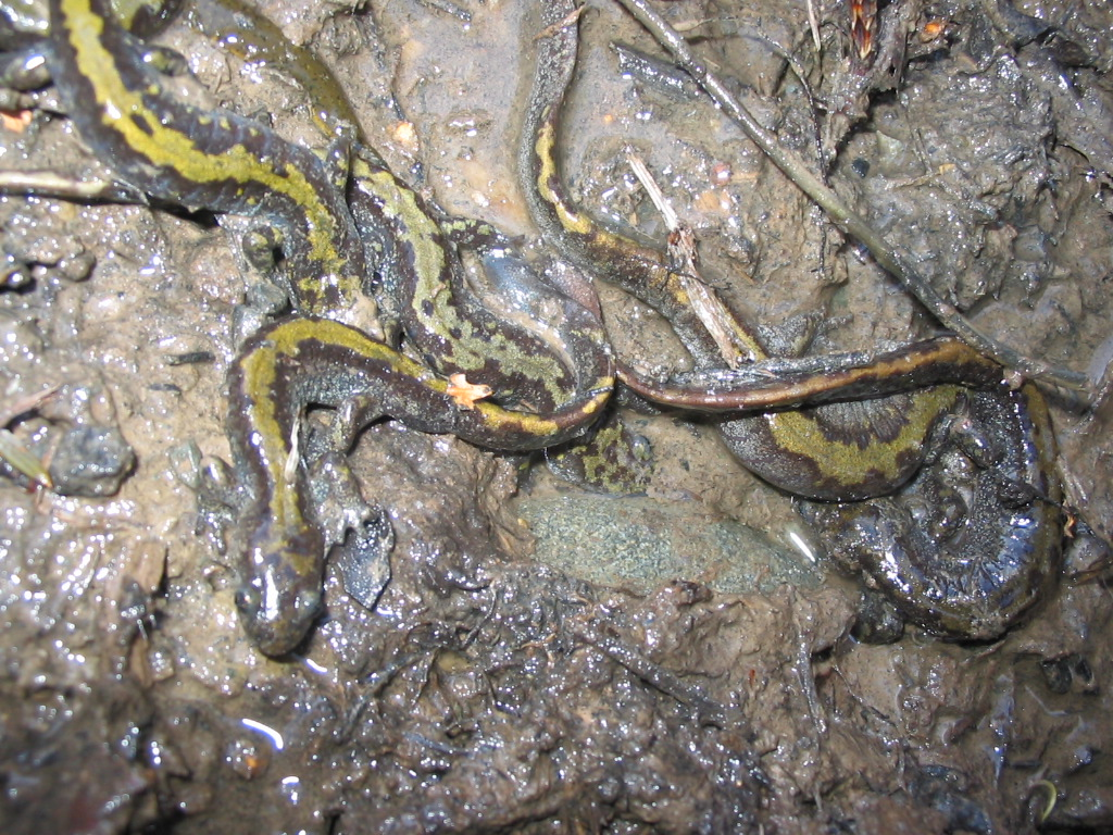 This is a breeding aggregate of adult long-toed salamanders (Ambystoma macrodactylum) found under a log along a waters edge in the early spring in Prince George, British Columbia.